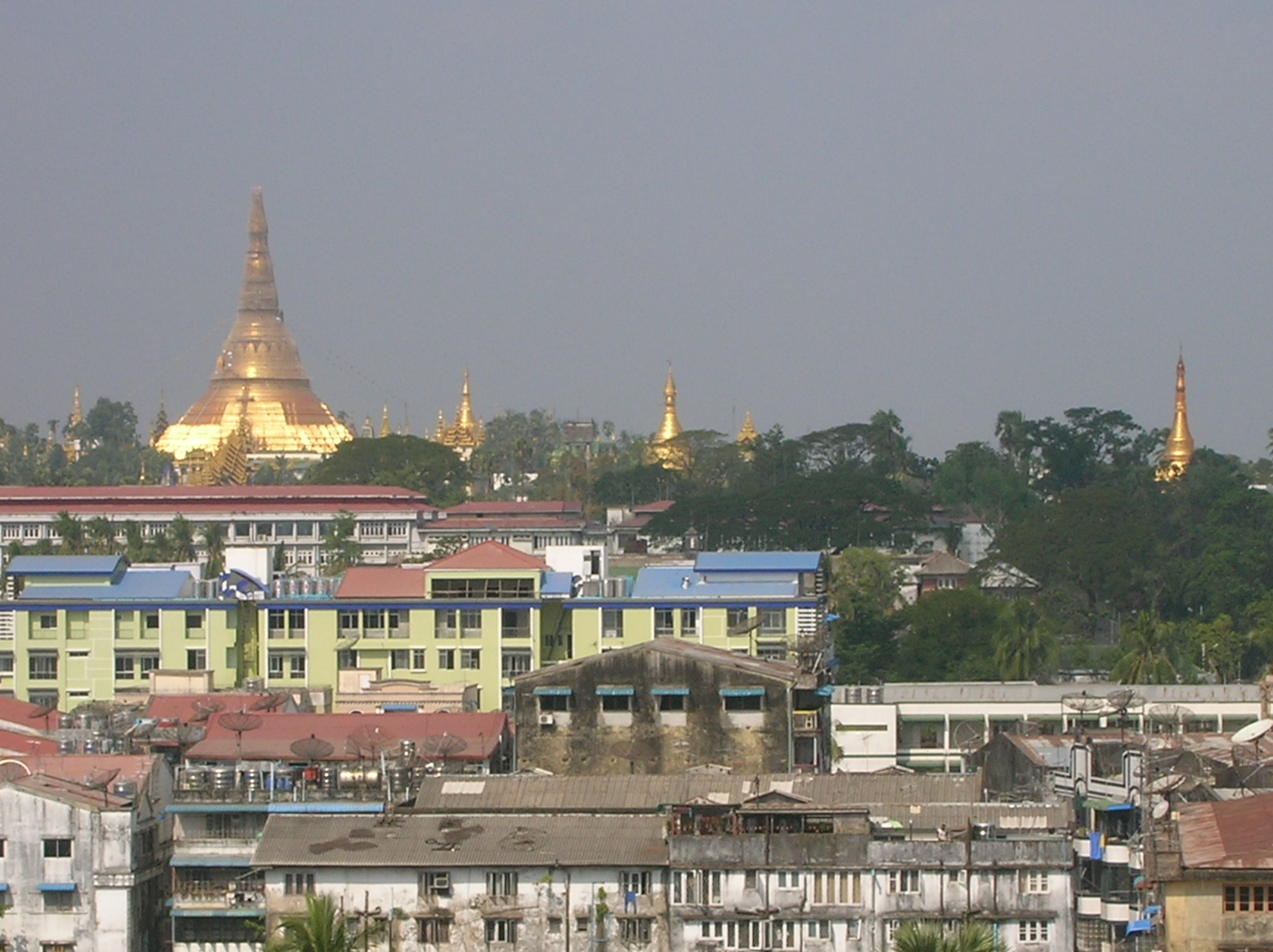 Yangon, balcony view